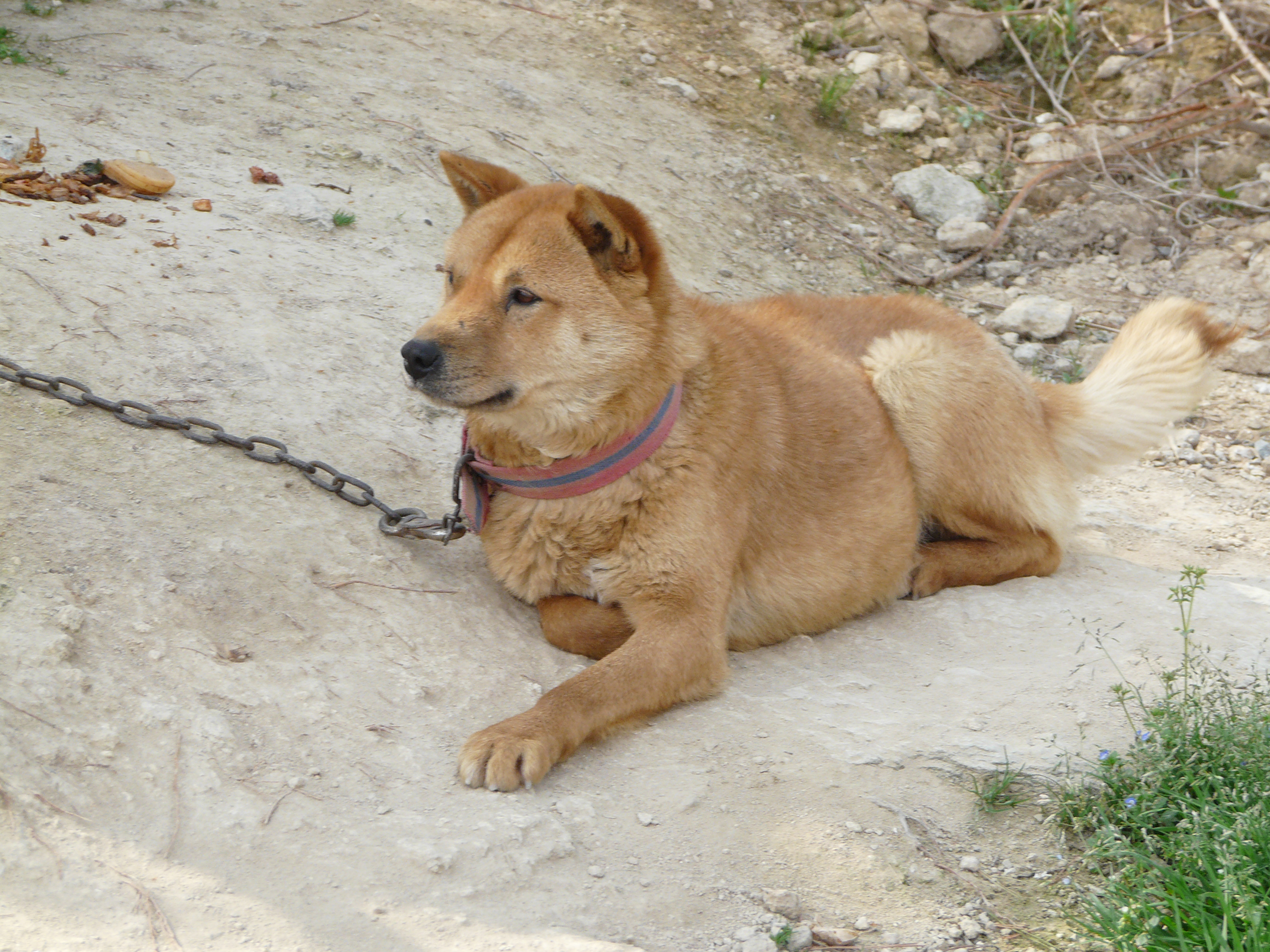 Photos from the Jindo island, Korea. Jindo dog